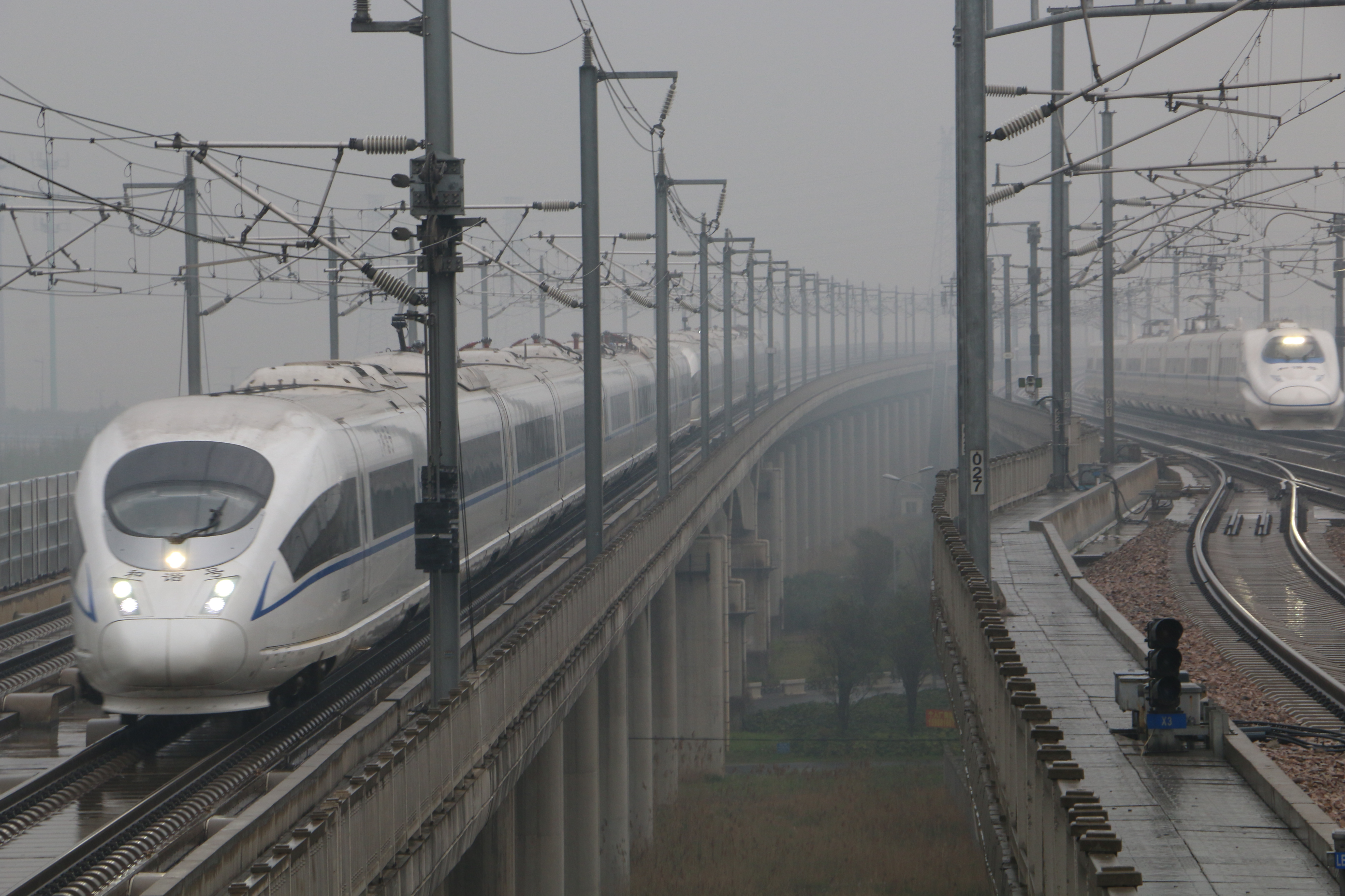 201604 Two EMUs passes Huaqiao together, the CRH380B in the left is on the Beijing-Shanghai HSR, the CRH2C in the right is on the Shanghai-Nanjing IHSR